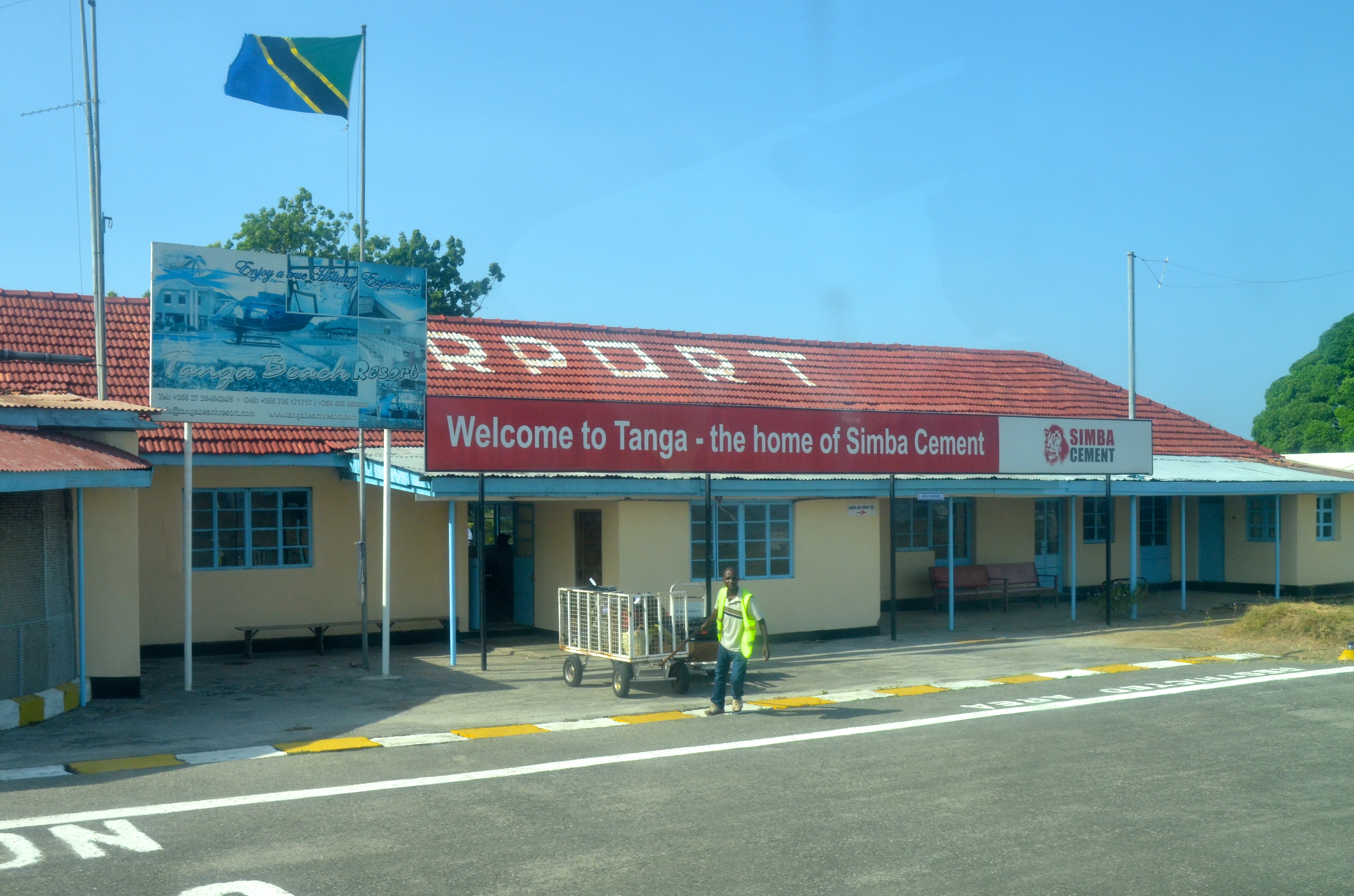 The airport building in Tanga, Tanzania, welcoming the passengers.